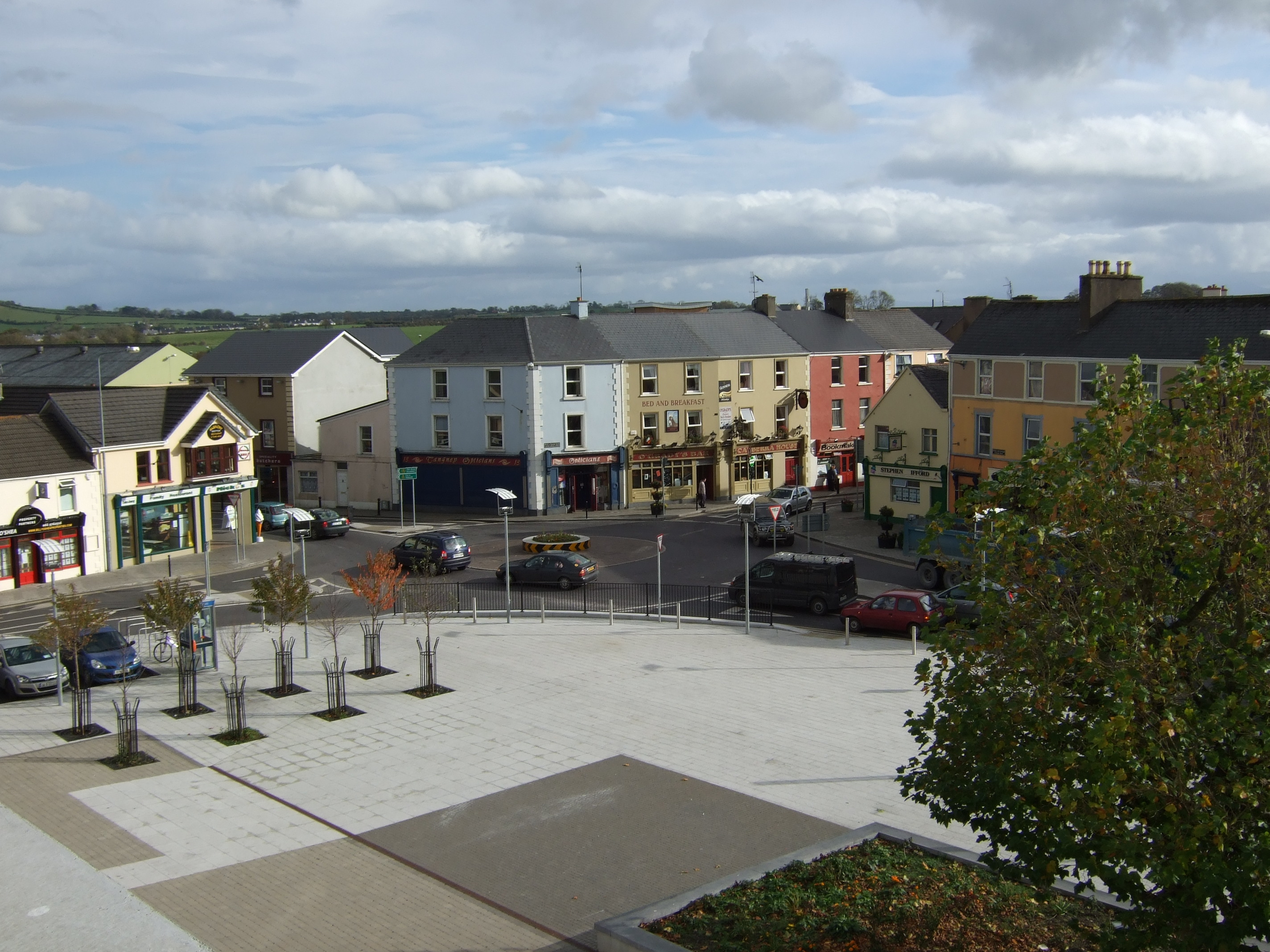 Roundabout at Library Place in Killorglin, County Kerry, Republic of Ireland